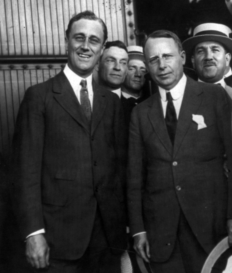 Franklin D. Roosevelt (left) and James M. Cox during the U.S. presidential election